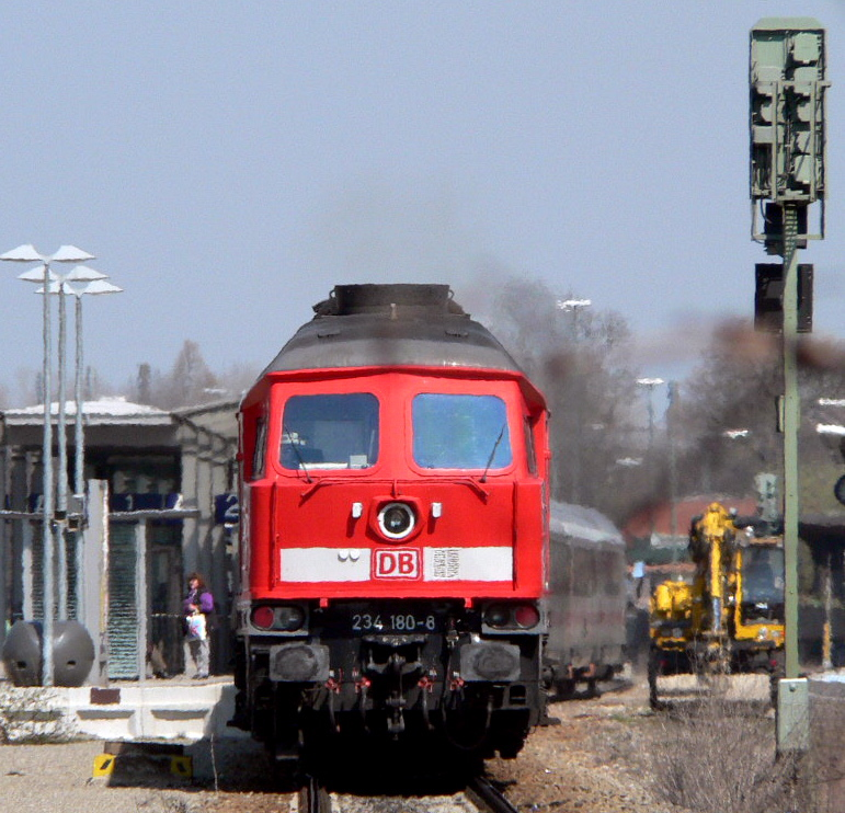 DB 234 180 (russian "Ludmilla" in Ravensburg (Germany)